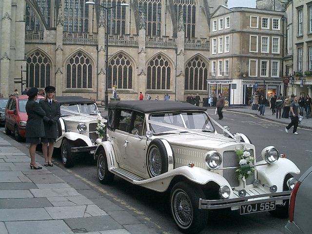 Two Beauford cars, a kit car popular for weddings; that's Bath Abbey in the background.